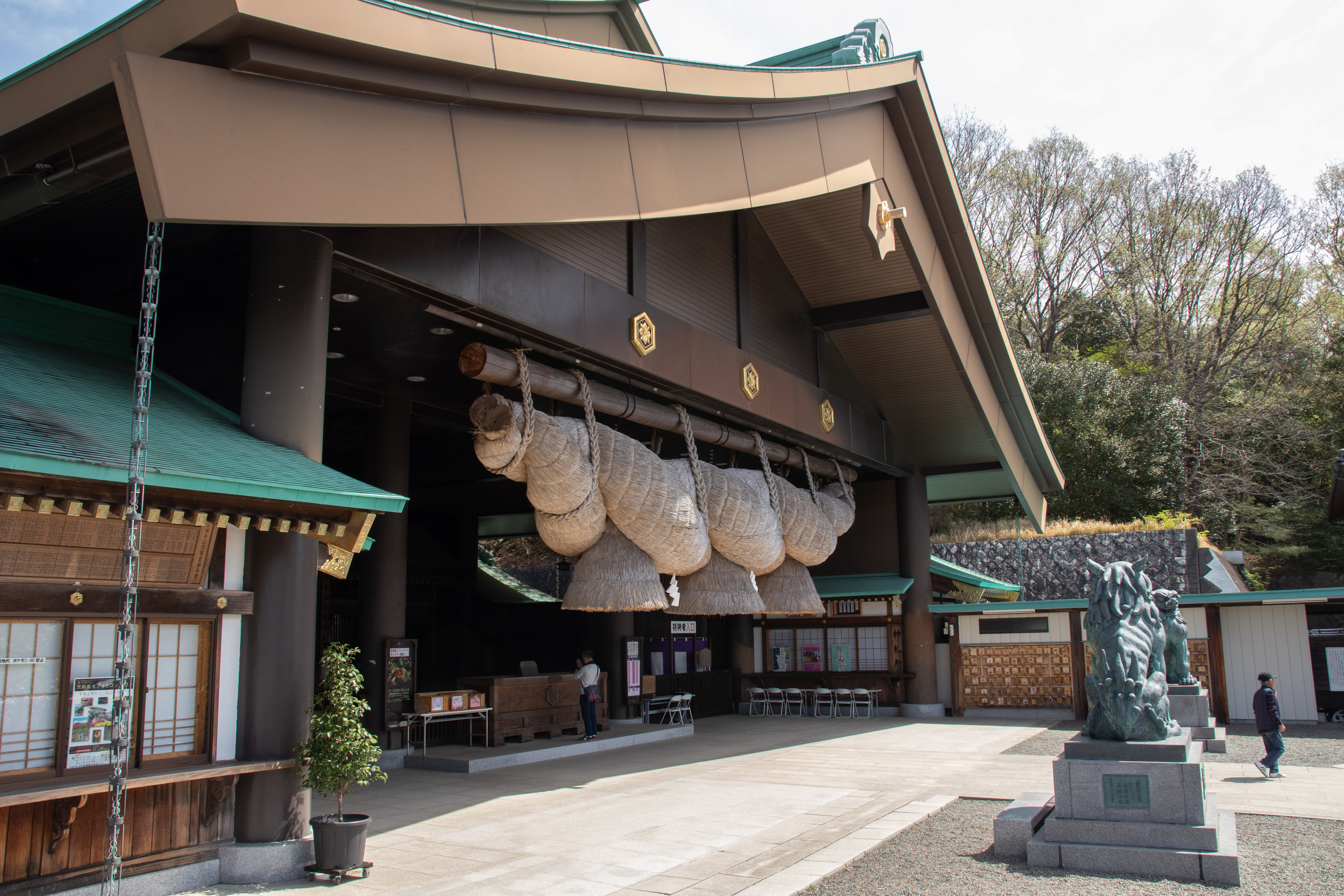 Hitachinokuni Izumo Taisha, Kasama City, Ibaraki Pref., JapanCanon EOS 80D + Sigma 17-70mm F2.8-4 DC Macro OS HSM